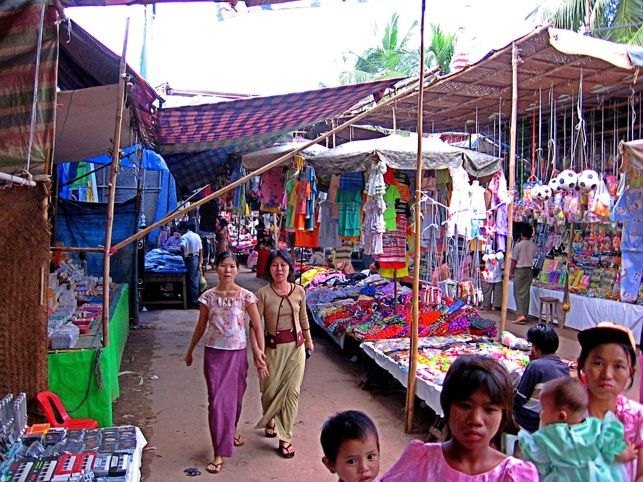 Street market in Monywa, Myanmar.